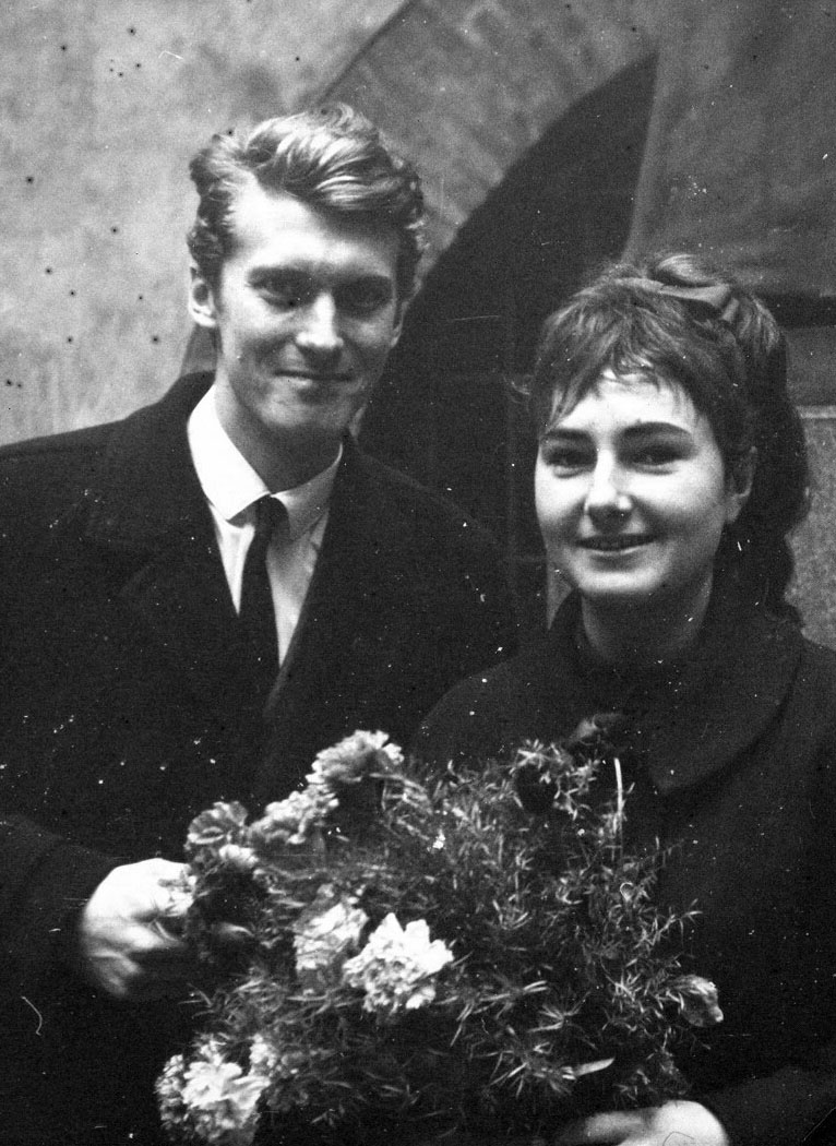 Josef Reischig in 1968 with his future wife Libuše Zíková after graduation in front of Carolinum